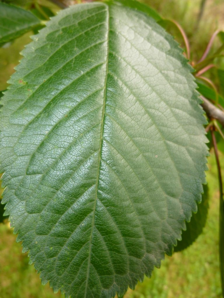 Cherry tree leaf